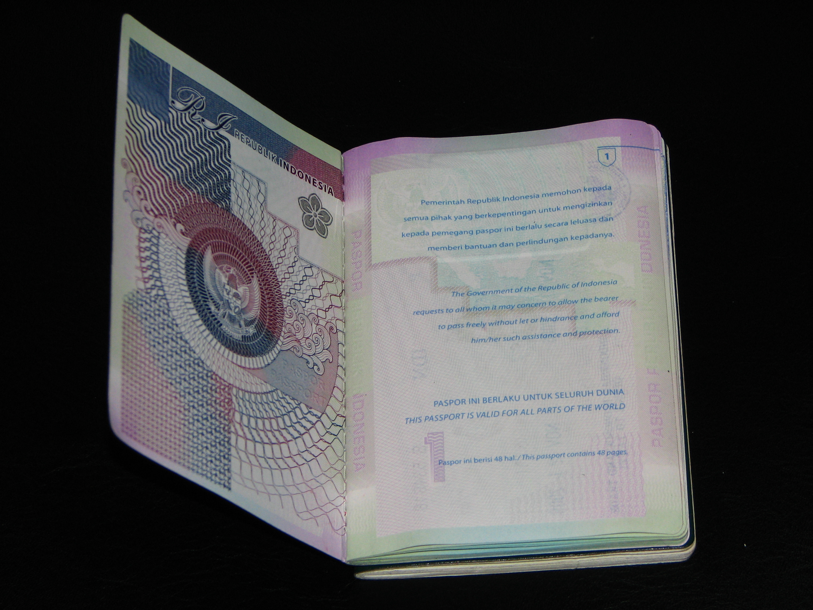 An Indonesian passport on black background shows the first page of the passport.